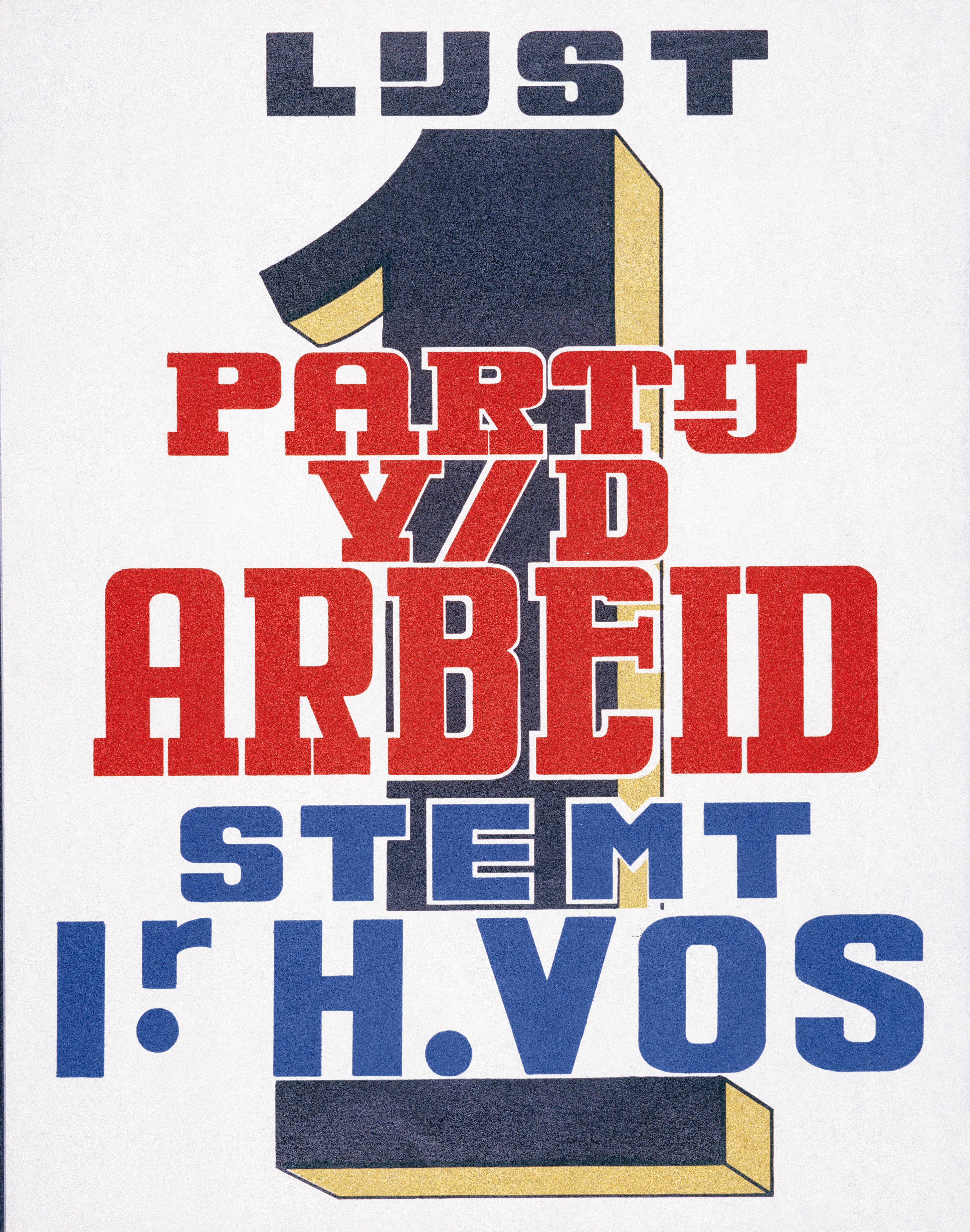 Poster used in the 1946 general elections by the Dutch Labor Party. Multiple elecotates were displayed on this design, in this case it is referring to Hein Vos.